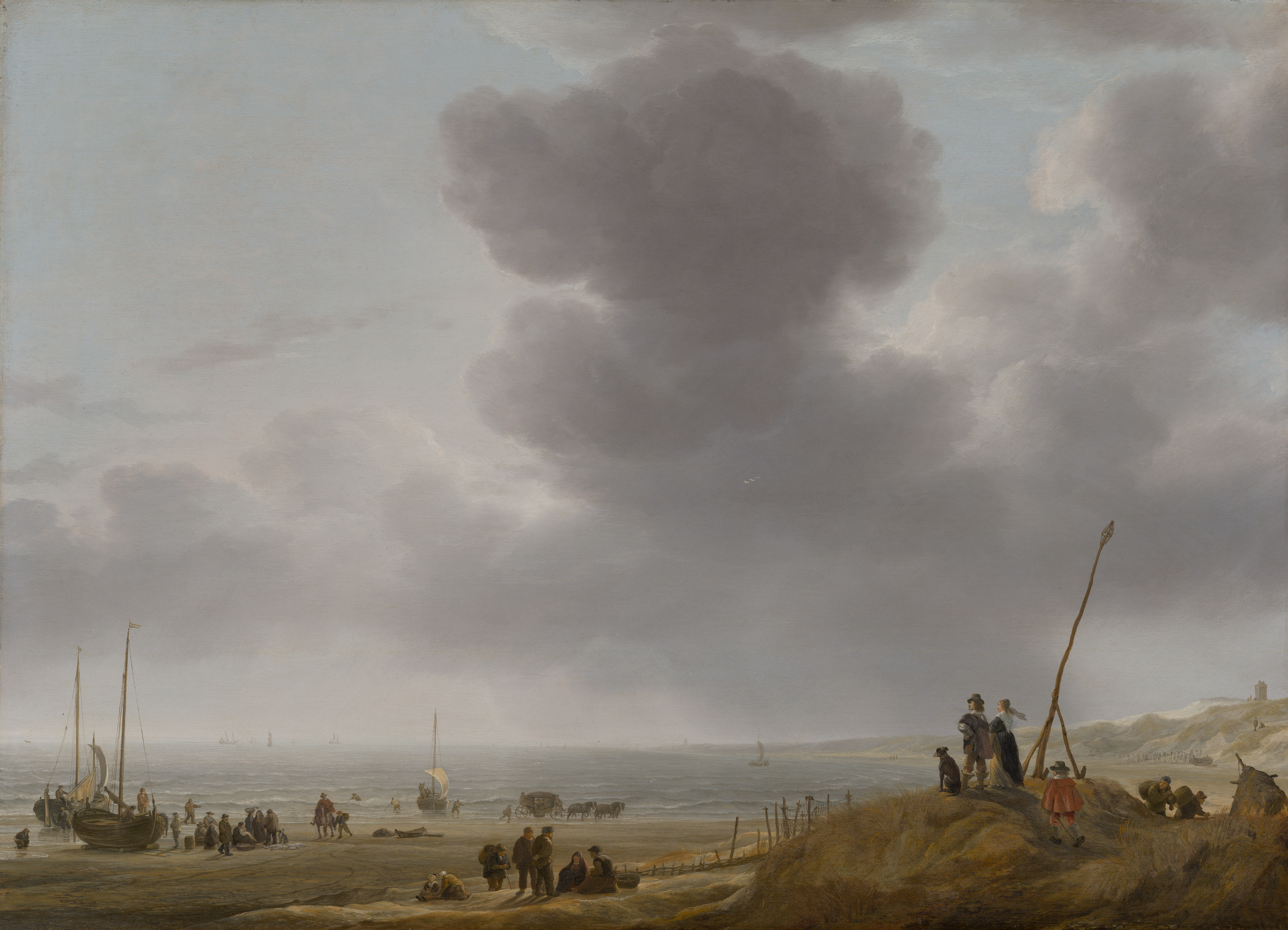 Beach view oil on panel 60,6 x 83,5 cm signed b.r.: S. DE VLIEGER / A 1643